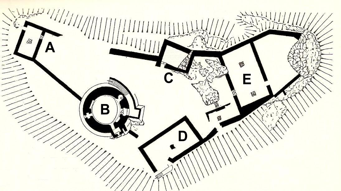 Plan of Dolbardarn Castle